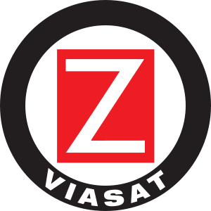 Logo of Swedish TV channel ZTV 2004-2007